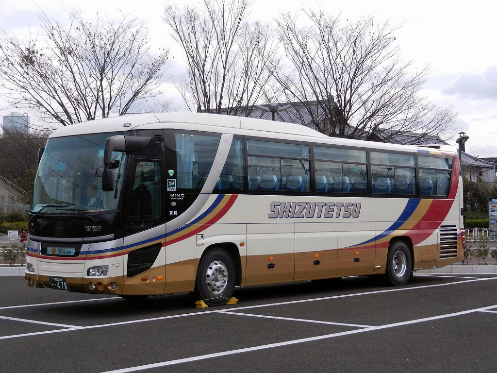 Shizutetsu Joystep bus Hino S'elega (PKG-RU1ESAA)